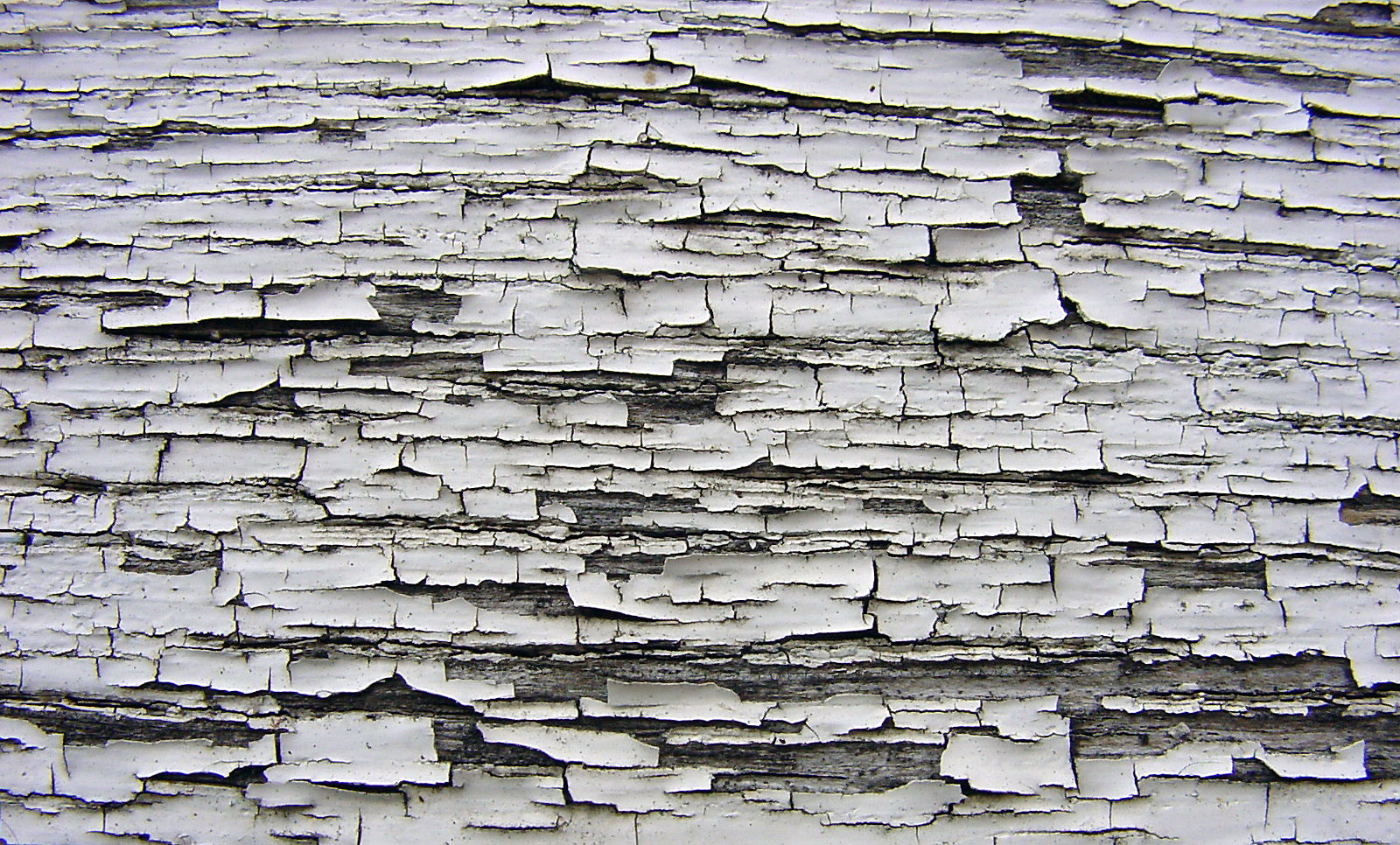 Old chipped paint. This can be a source of lead poisoning in cattle or animals that would eat them (poultry, cows in a stable...). It is also a source of soil pollution. Some oil paints or (linseed) oils do not contain lead, but contain or may have contained lead used as a drier, without this being specified on the label of the paint box.